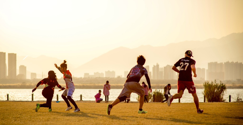 Fuzhou Beach Park